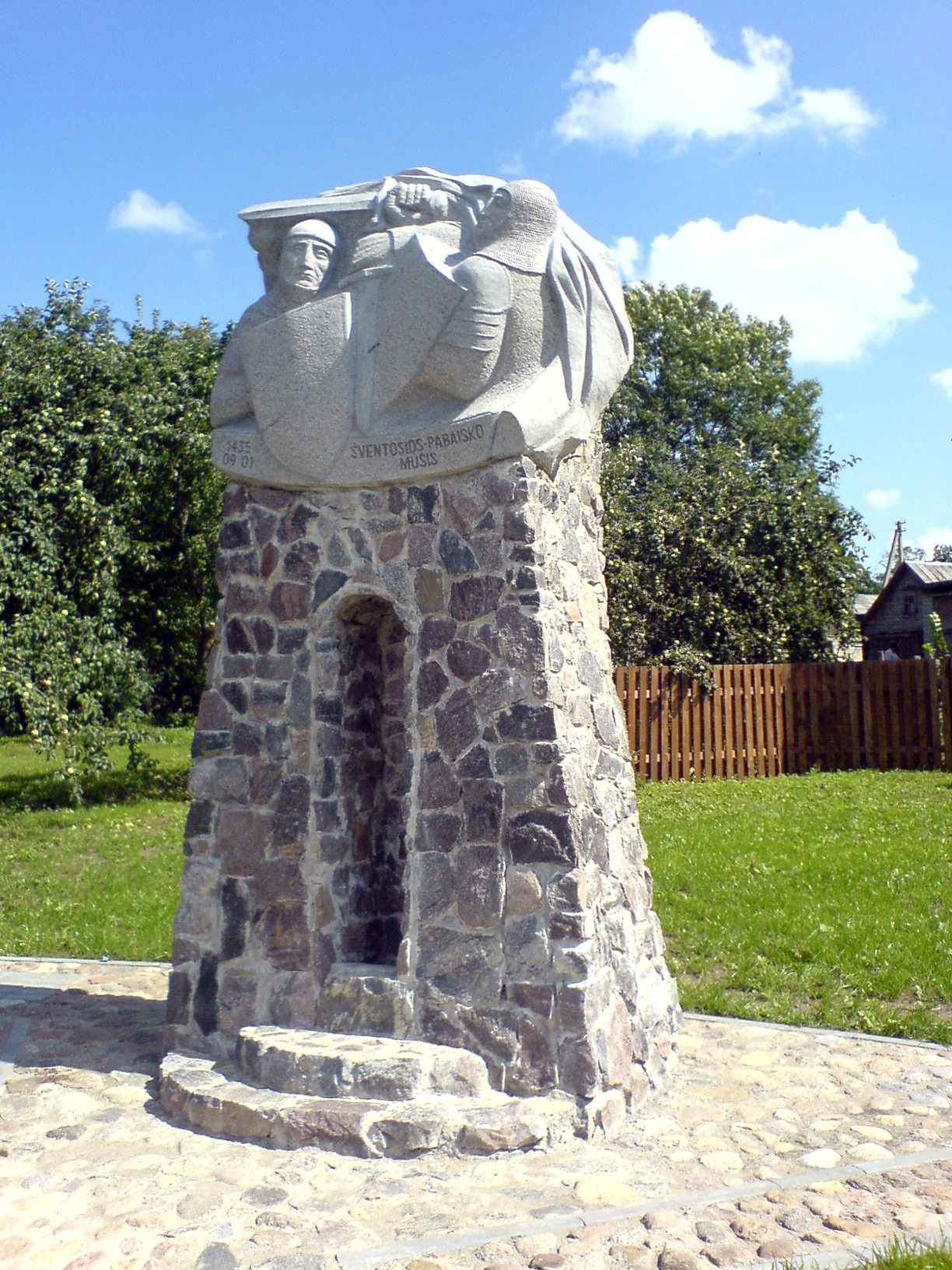 Monument in the field of the Battle of Pabaiskas